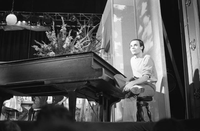 Photograph of Lewis Furey on the set of Fantastica, Montreal, August 1979.